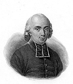 Image of François Rozier botaniste